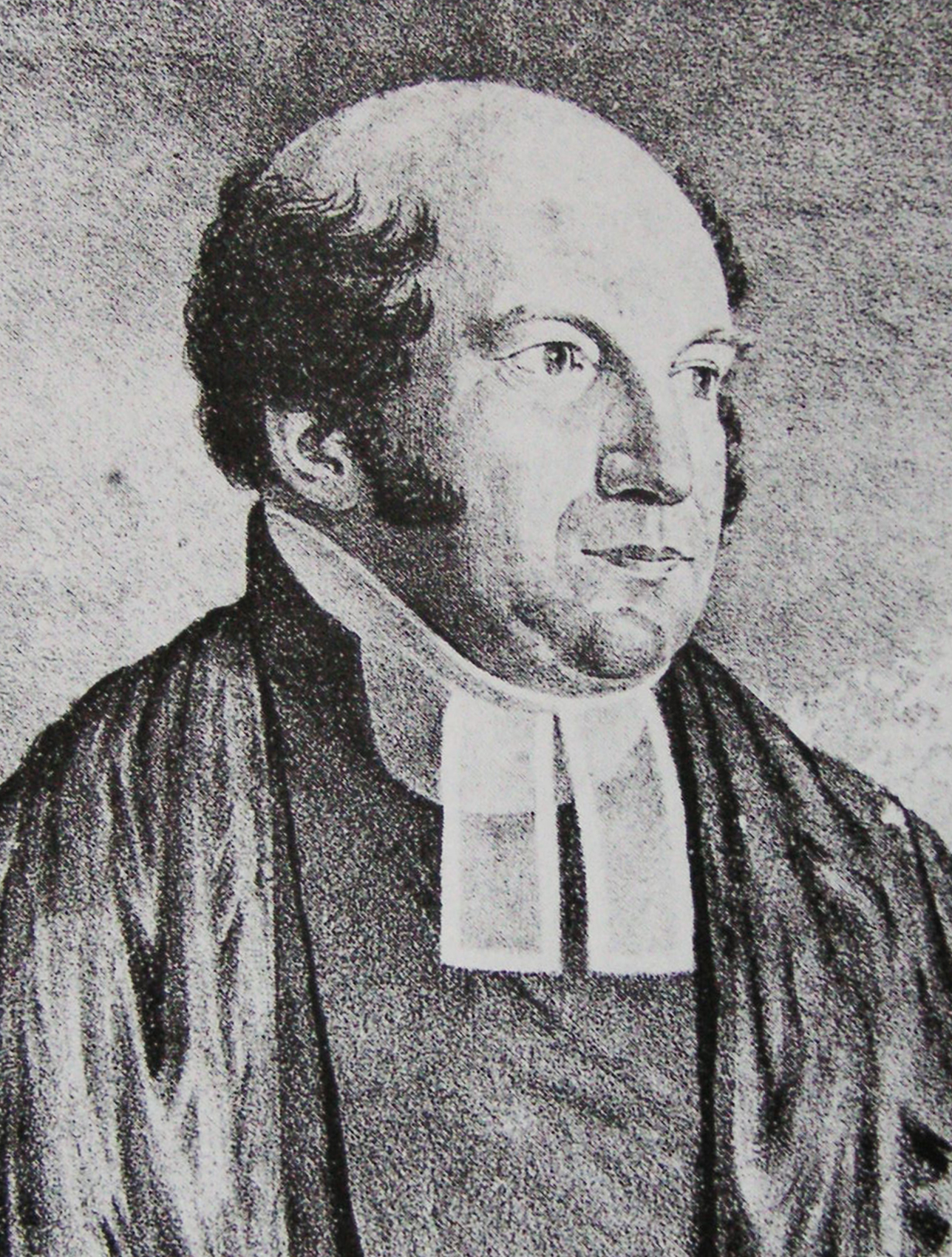 Drawing of Reverend Richard Hill, first rector (chaplain) of St James' Church, Sydney